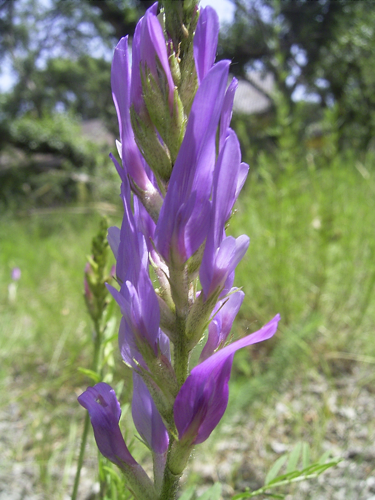 Astragalus onobrychis flora, June 2006, at Rax, Austria